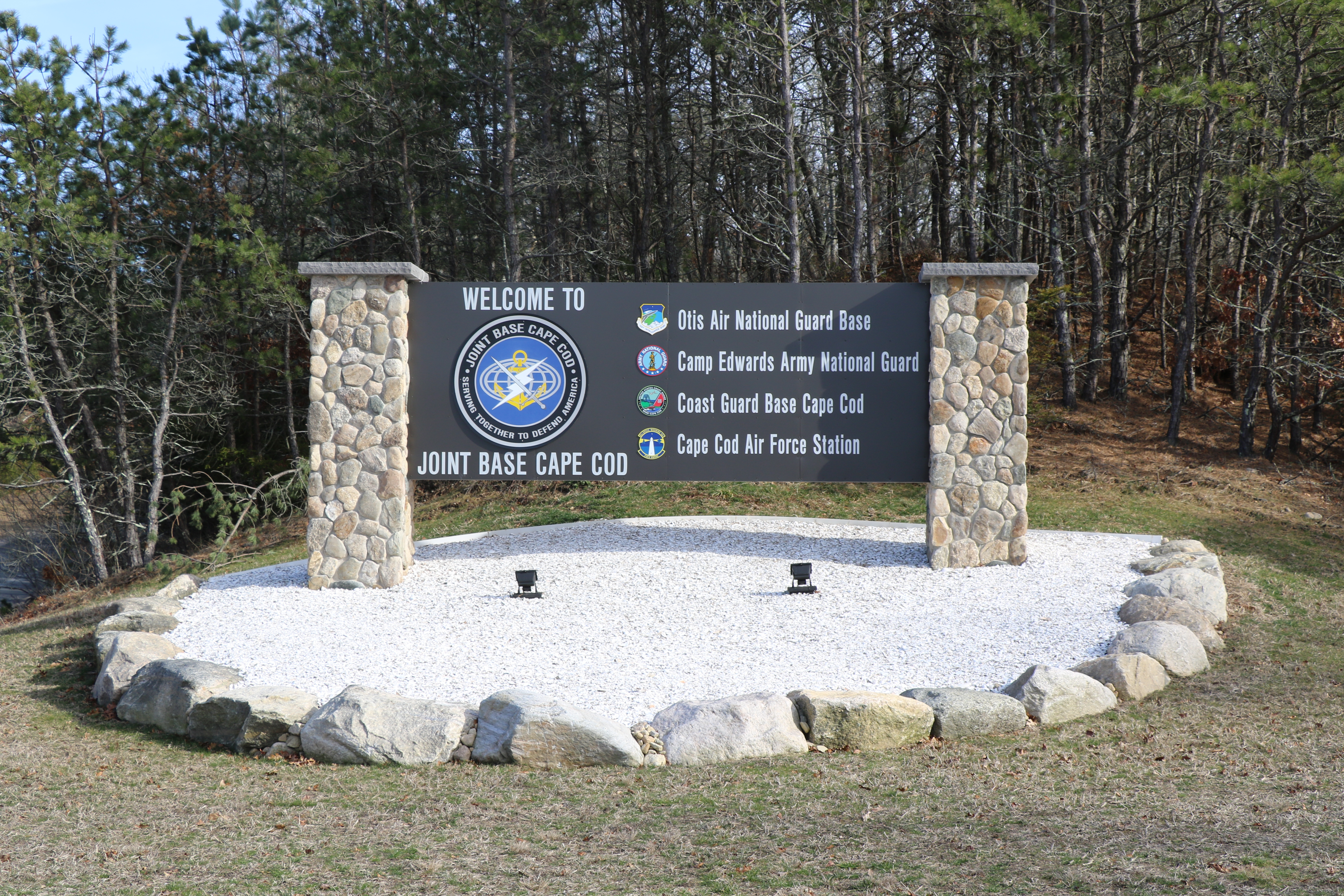 Entrance sign to Joint Base Cape Cod.